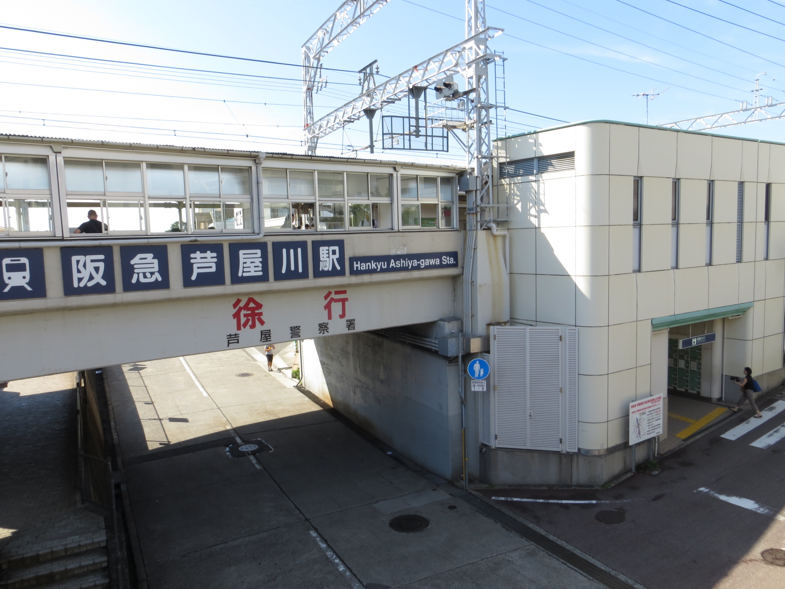 Ashiya-gawa Station (From the north).